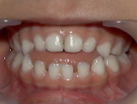 open bite